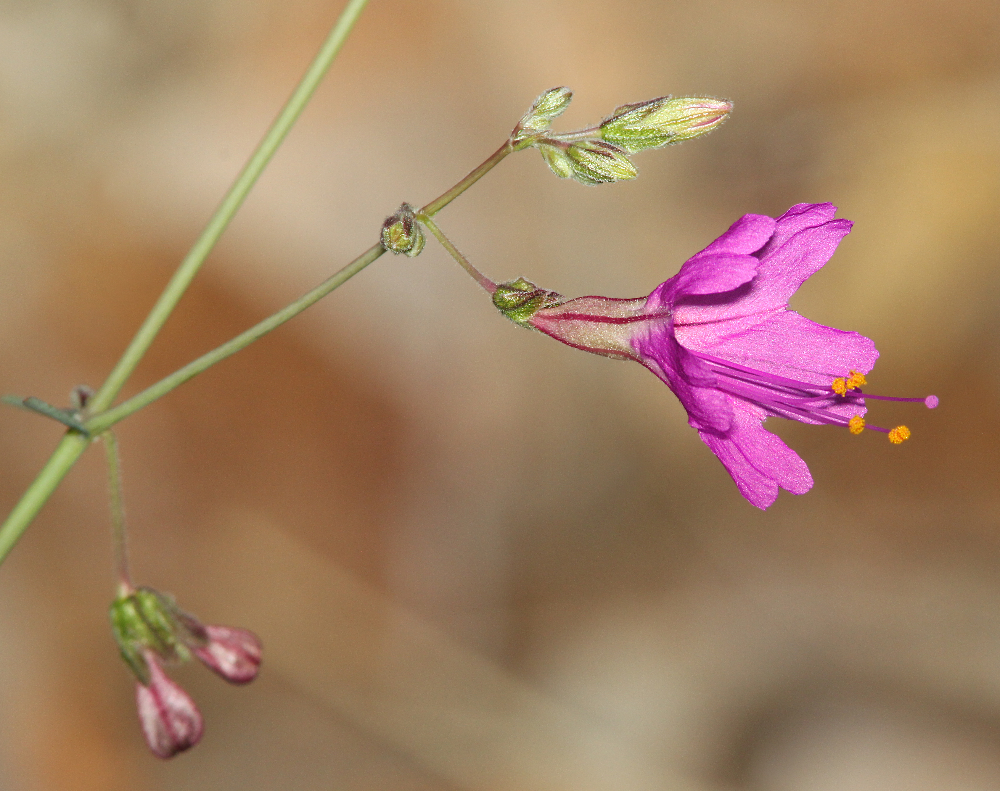 ARIZONA - FLOWERS